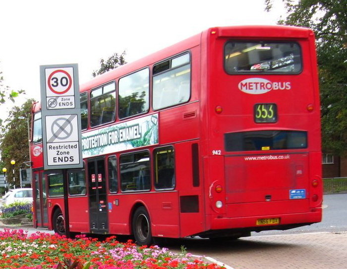 Metrobus bus 942 (reg. YN56 FDX), a 2006 Scania N94UD OmniDekka double-decker, in Orpington, Bromley, London, operating London Buses route 353 en-route to Addington. It's pictured at the end of the High Street facing south, about to turn right around the war memorial roundabout into Station Road (the memorial is obscured by the bus).